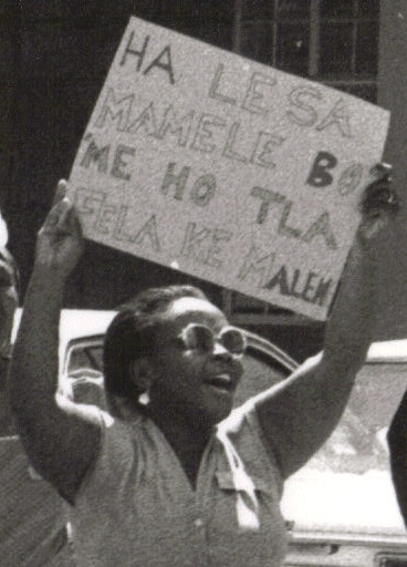 A Bosotho woman holding up a sign protesting violence against women, written in her native Sesotho (Sotho) language, at a National Women's Day protest at the National University of Lesotho.